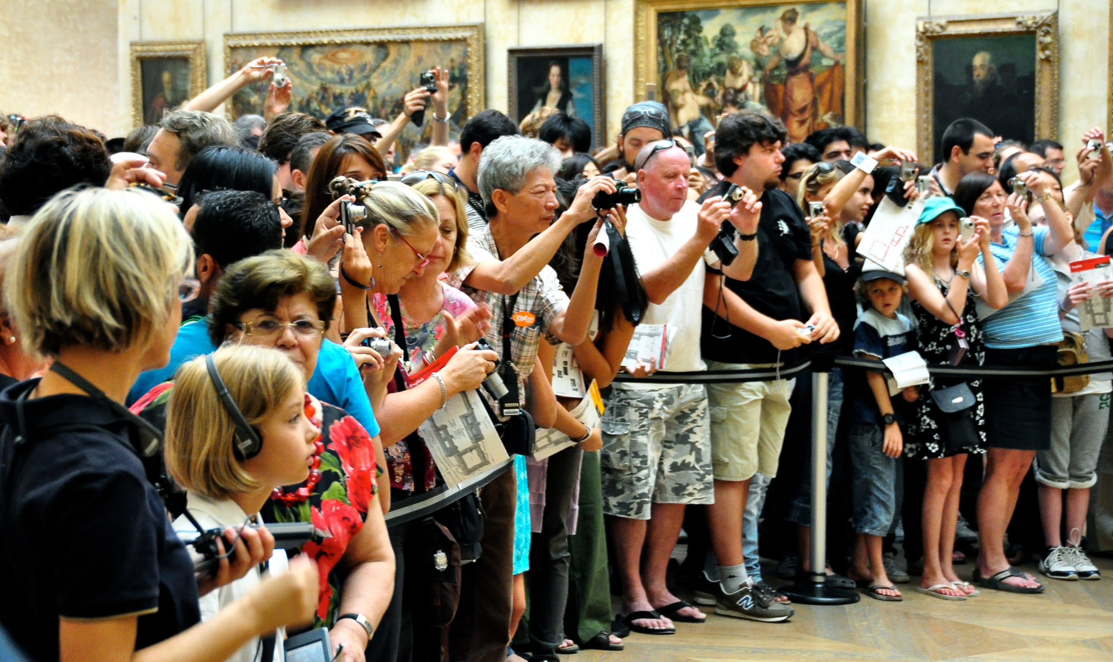 Visitors and Mona Lisa